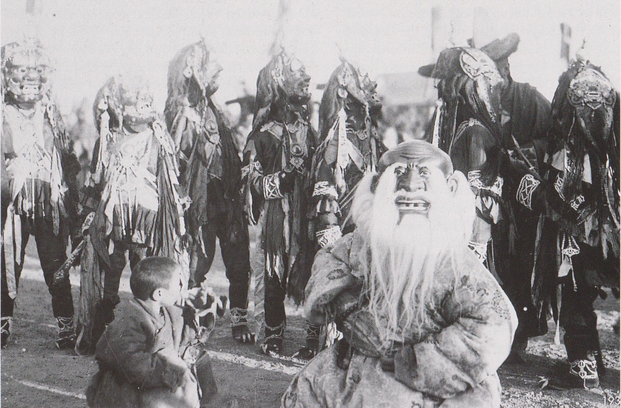 The last Great Khüree Cham- dance festival in Mongolia before organised boeddhism was wiped out was organised in 1937 near what is now Ulaanbaatar. The central figure in the photo is the deity of the Old White Man, the most comic character in the cham. It would take until 2007 before another Great Khüree Cham- dance could be organised.